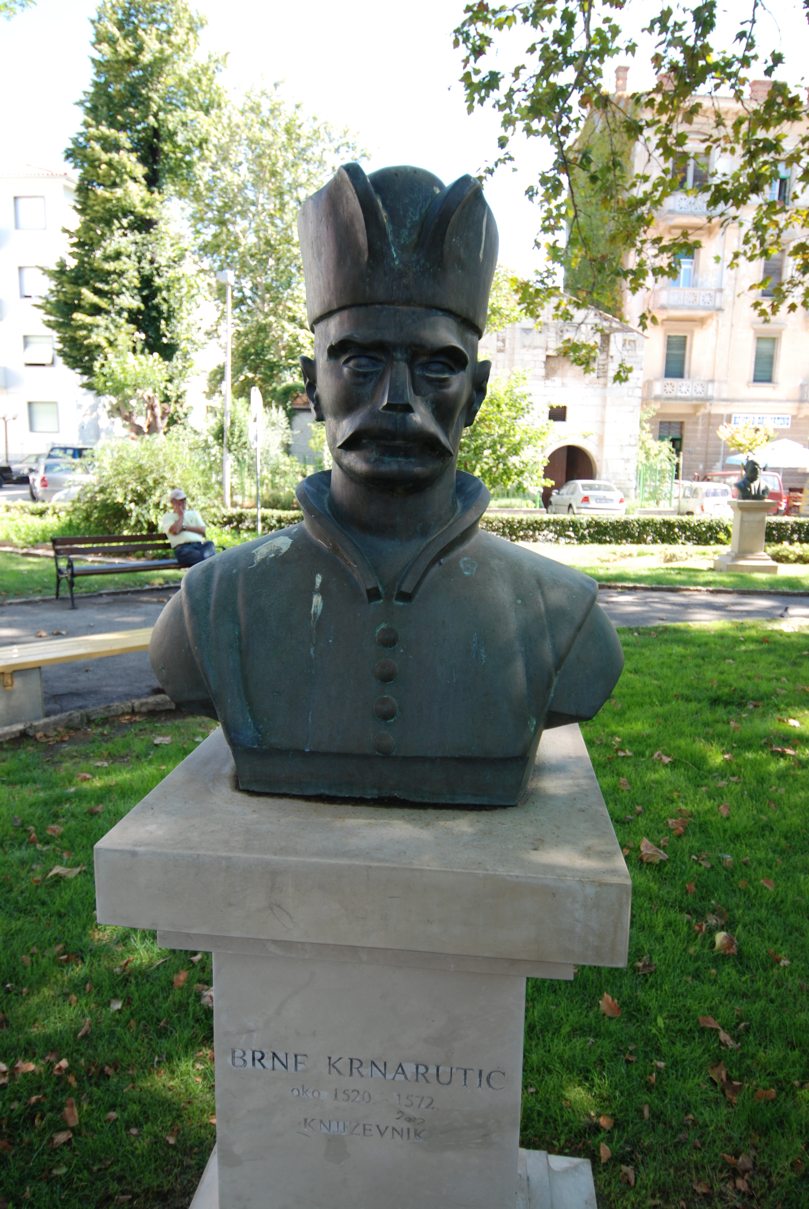 Bust of the croatian poet and writer Brne Karnarutić in Zadar